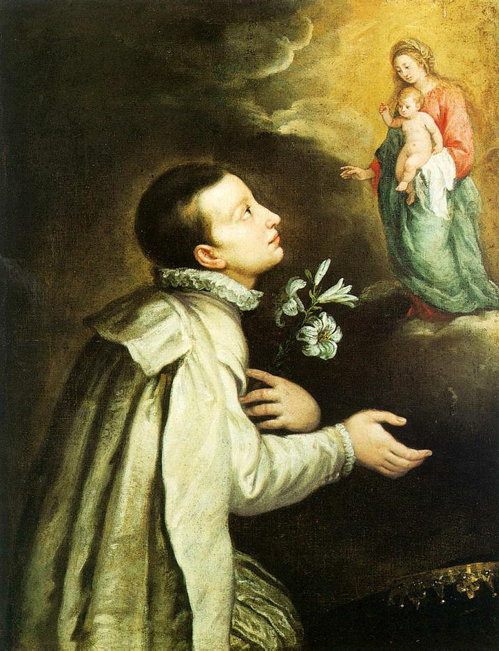 Carlo Francesco Nuvolone, St. Aloysius Gonzaga, S.J., oil on canavas 102 x 79